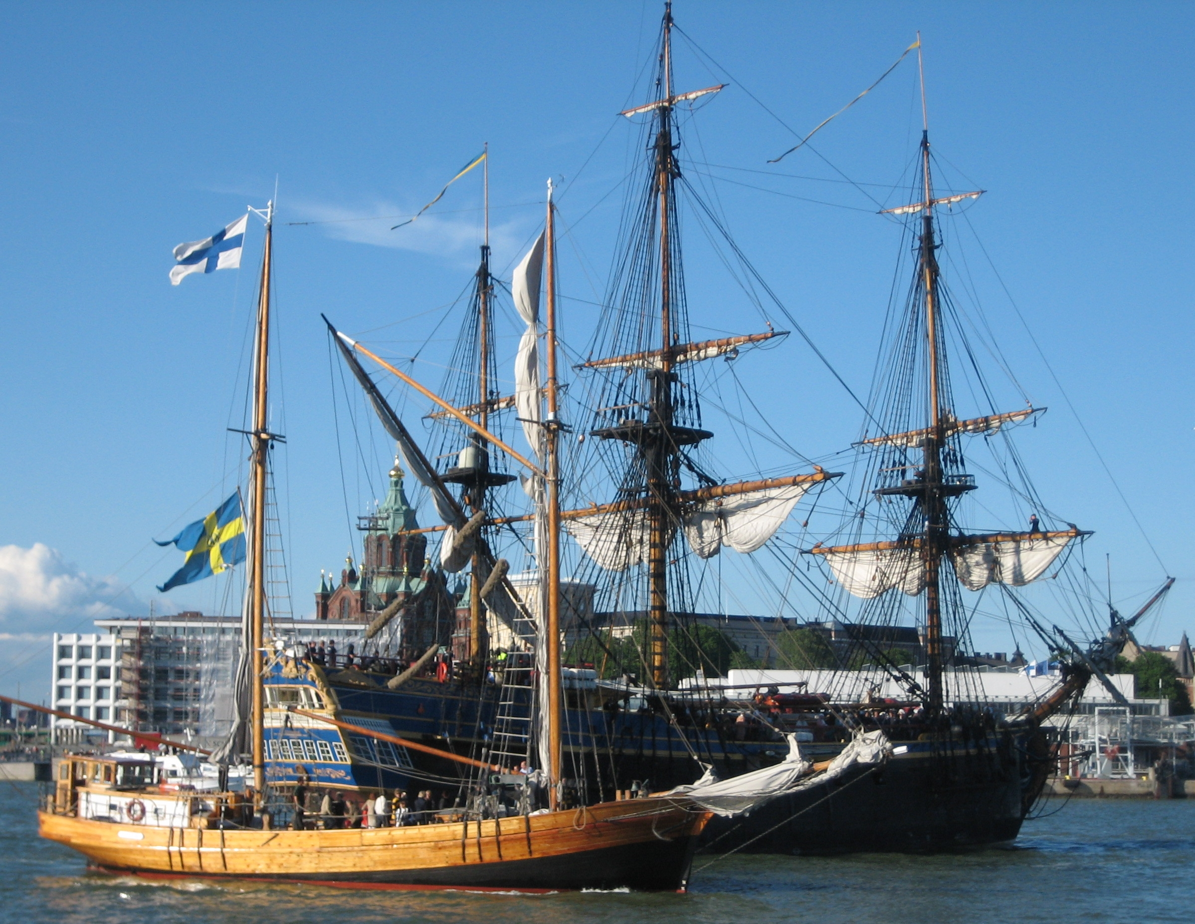 The Finnish galease Astrid and the Swedish East Indiaman Götheborg visiting Helsinki, Finland. Astrid Callsign: OFLT Length: 25m Beam: 7m